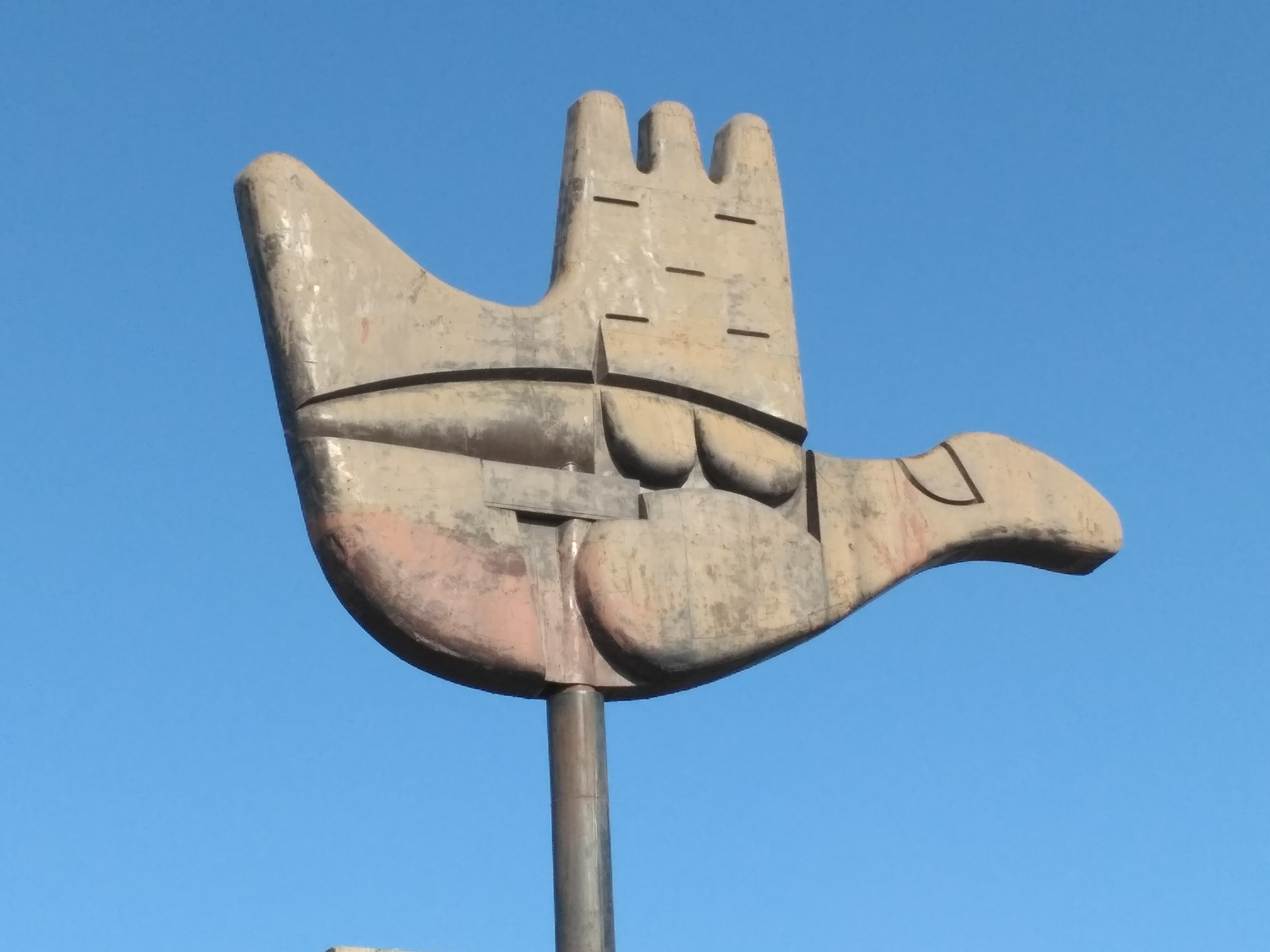 UNESCO World Heritage Site